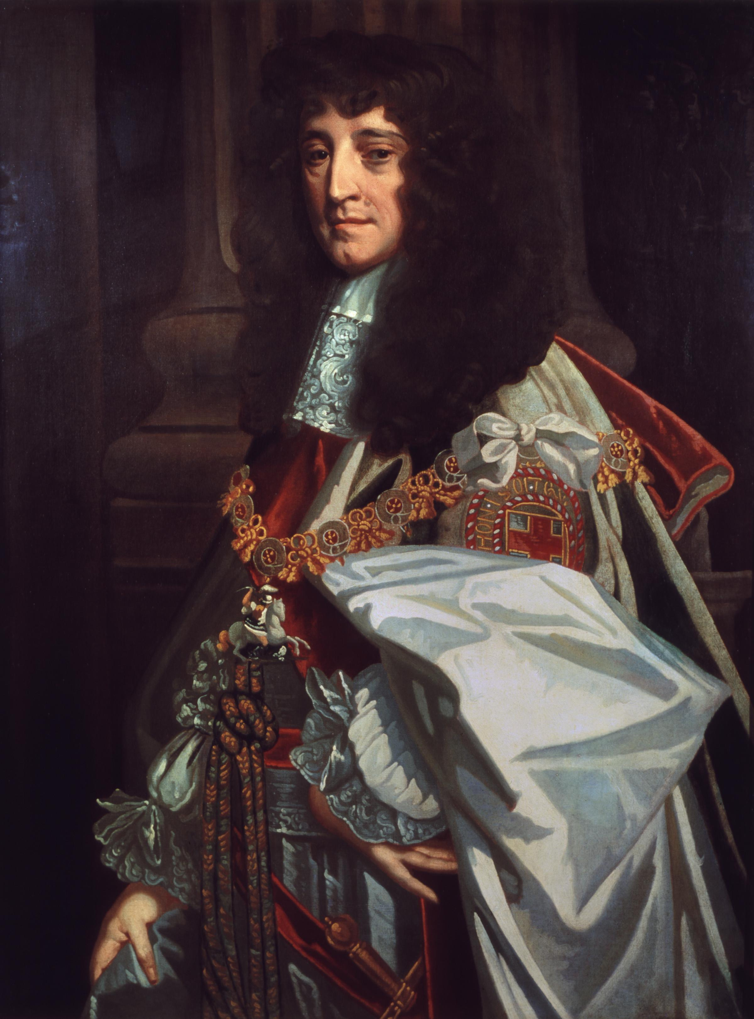 Prince Rupert, Count Palatine